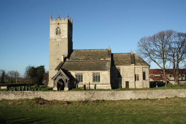 St Mary's parish church, Birkin, North Yorkshire, seen from south-southeast